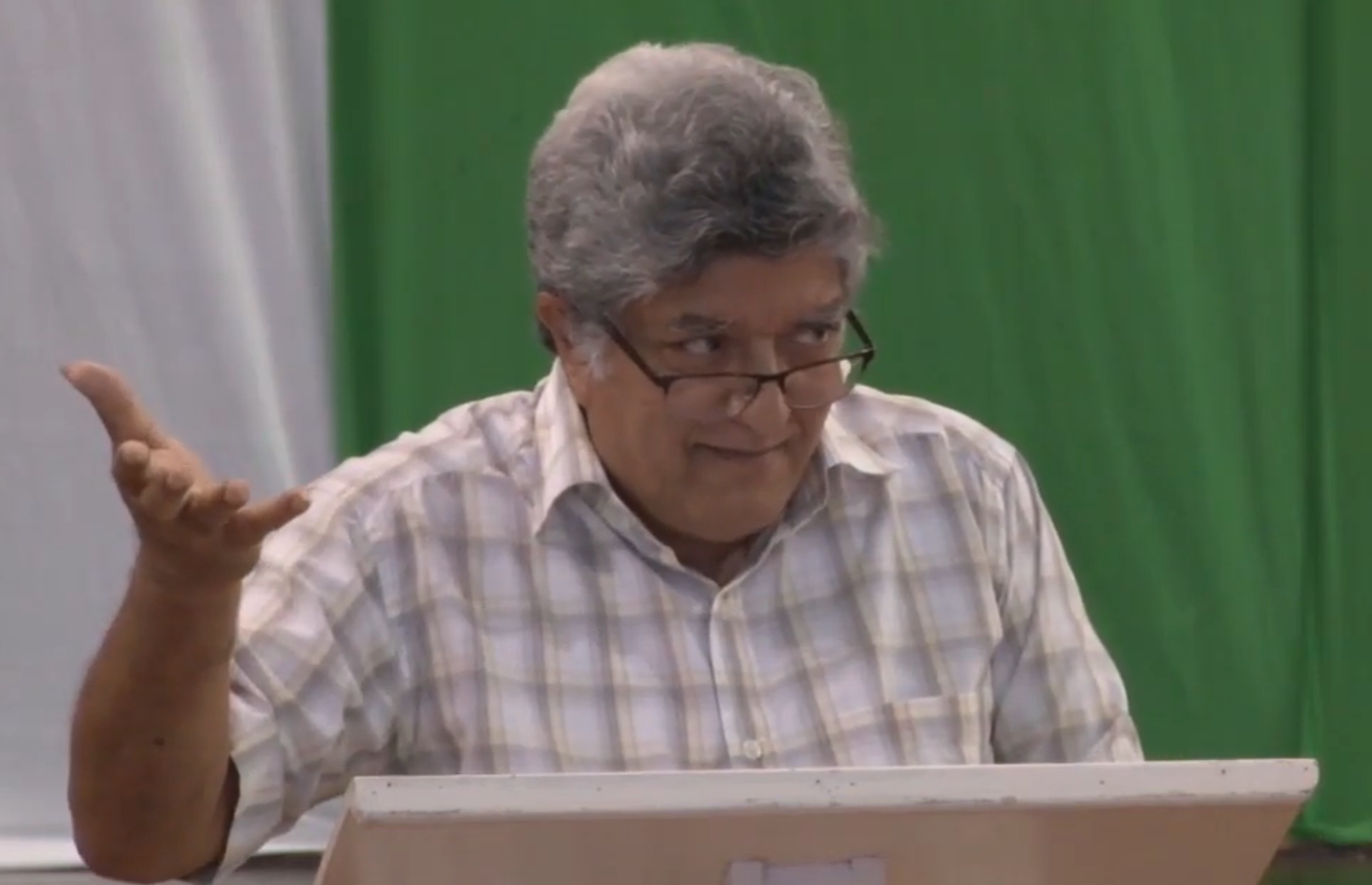 Robby Parabirsing (pen name "Rappa"), Surinamese writer